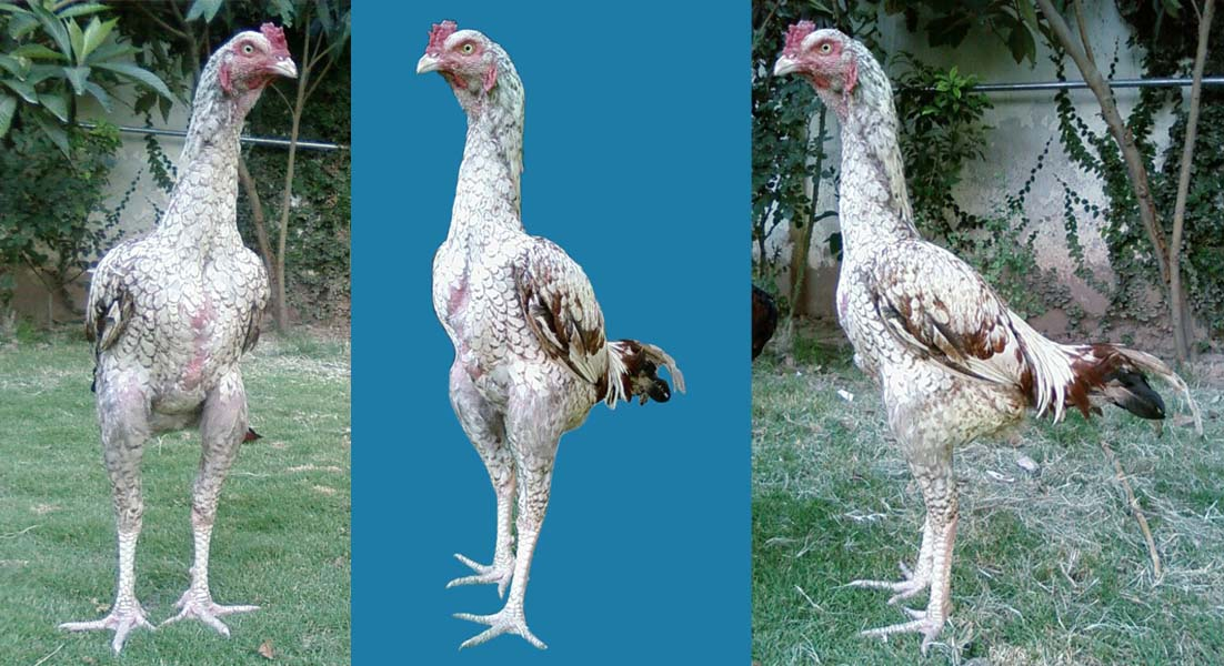 A 5 months old Sindhi Kaura Aseel